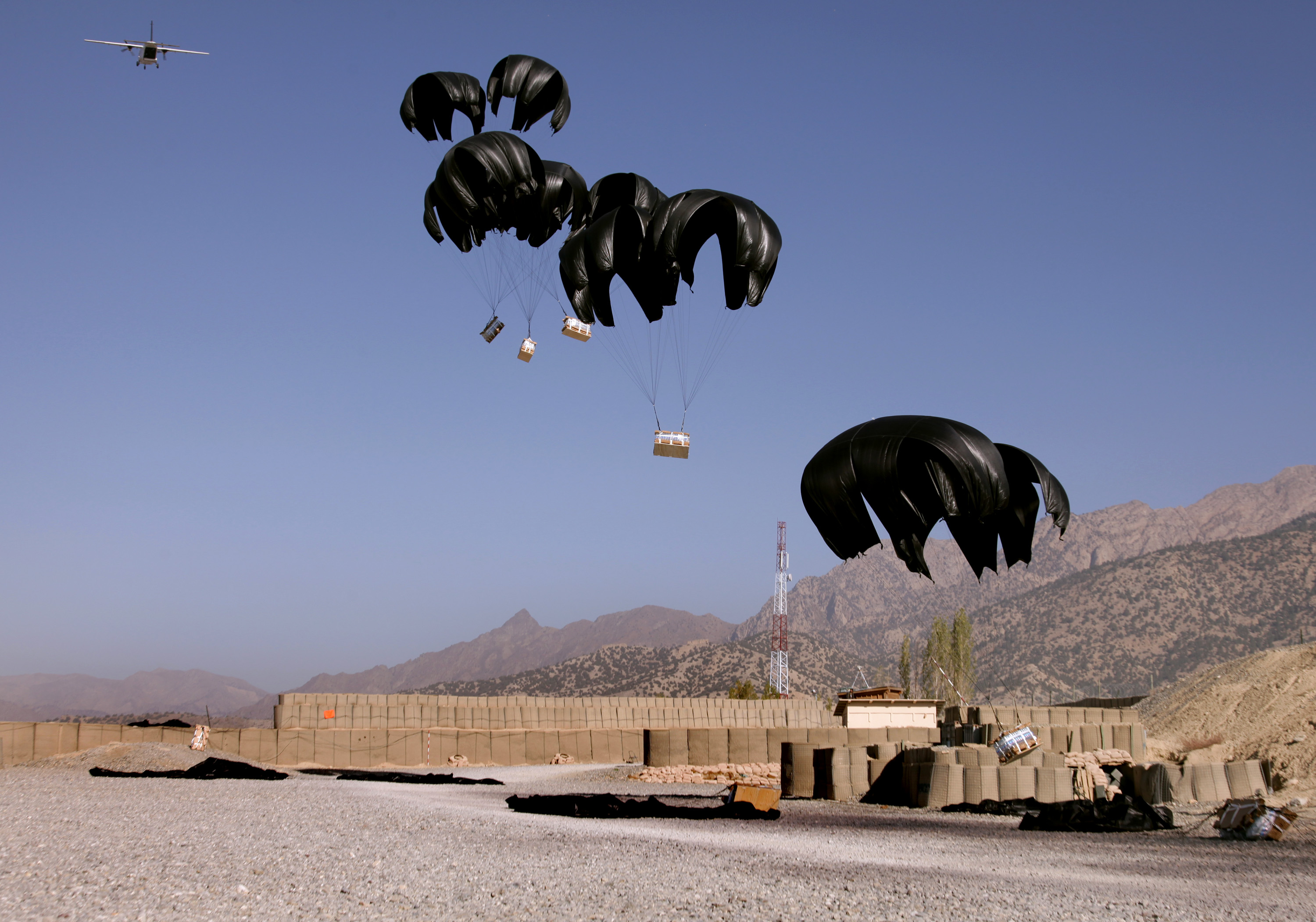 Bundles of bottled water attached to parachutes fall from an aircraft during an aerial resupply on Combat Outpost Herrera, Paktiya province, Afghanistan, Oct. 15, 2009.